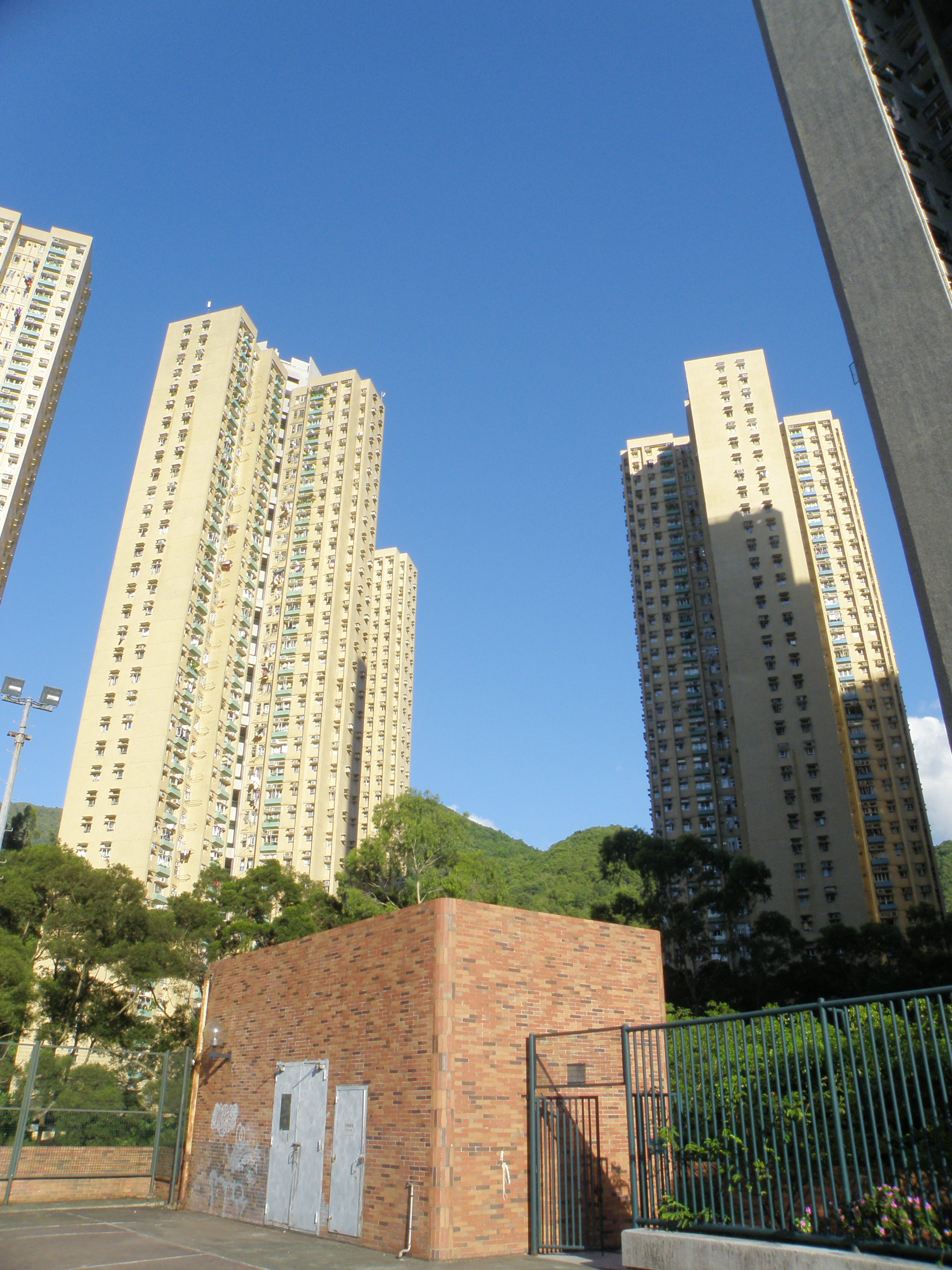 Hong Lam Court in Siu Lek Yuen, Hong Kong.